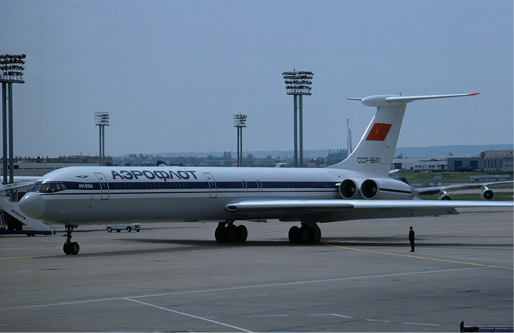 An Ilyushin Il-62 of Aeroflot at Orly Airport